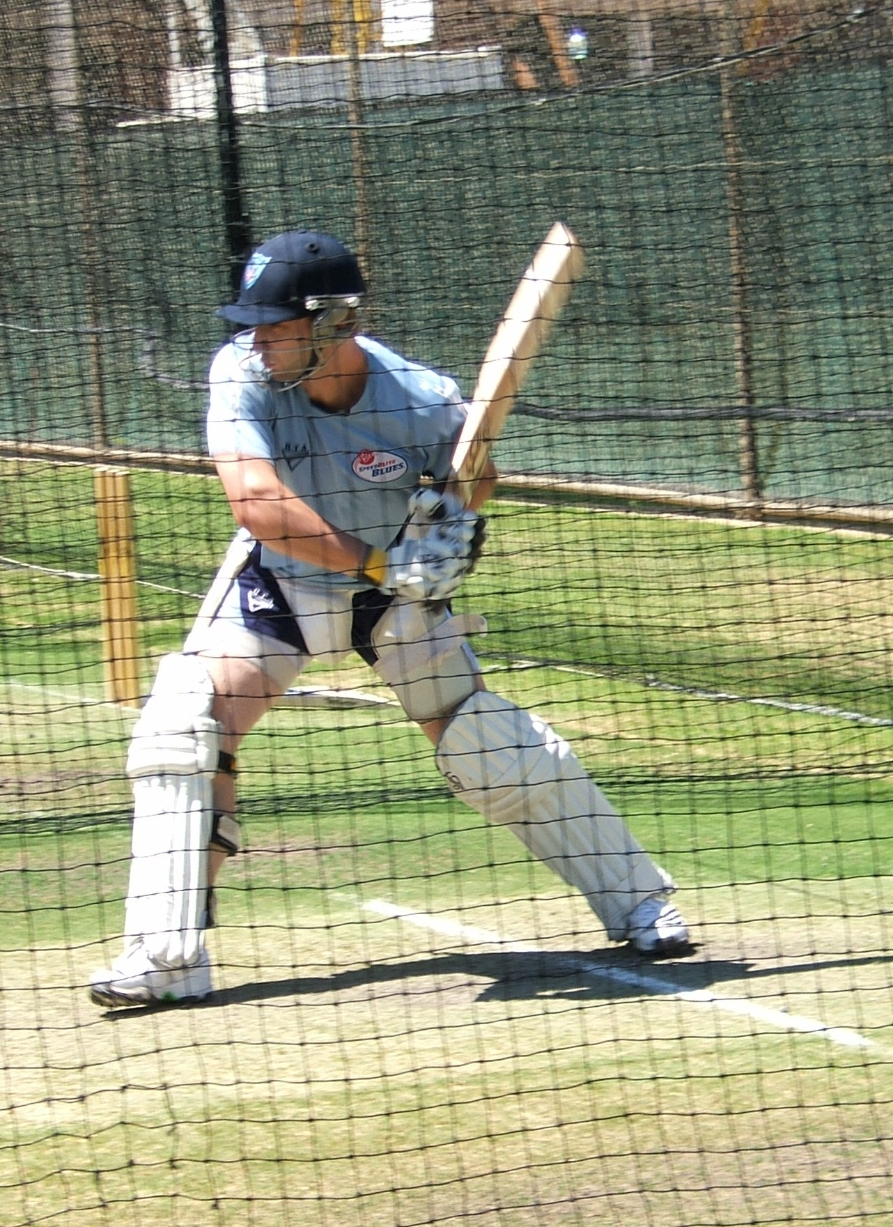 Named person engaging in named action at Adelaide Oval nets/training ground